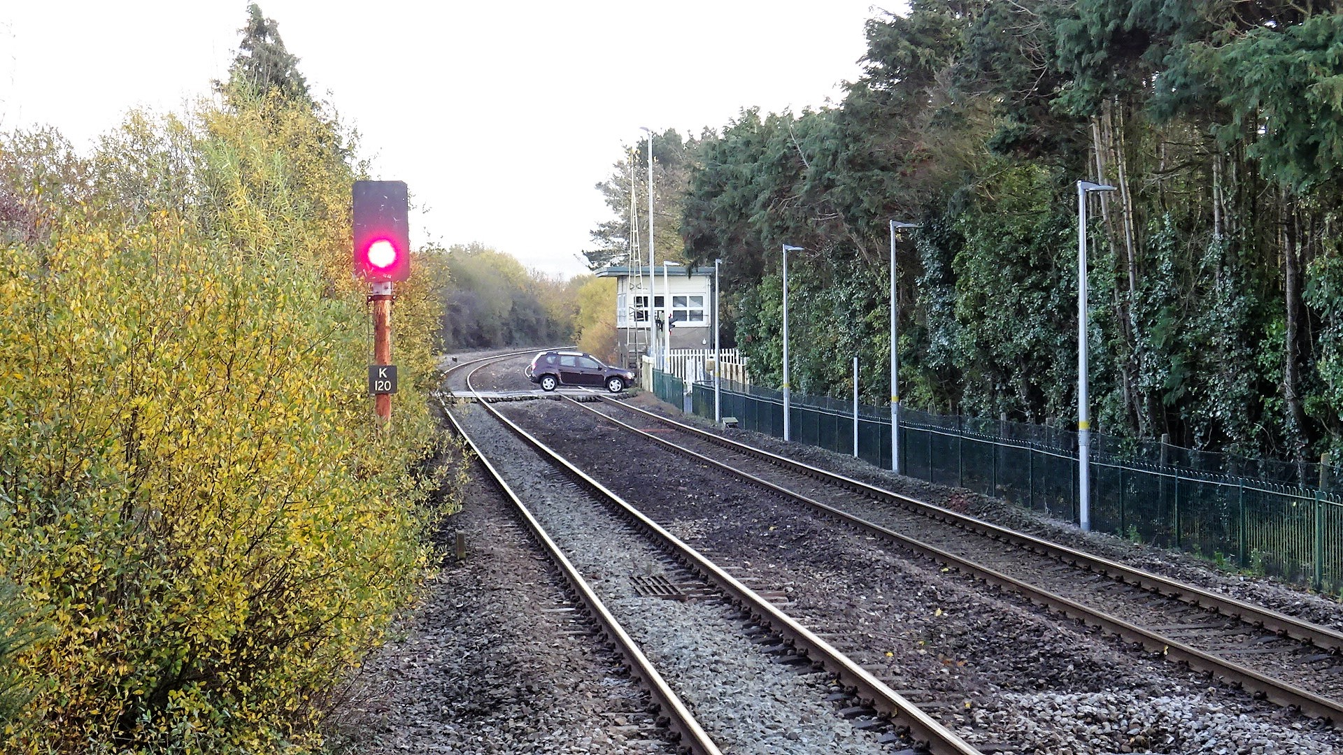 Kidwelly railway station, South Wales main line. Level crossing. View towards Burry Port & Llanelli.